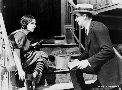 Helen Ferguson and Bryant Washburn in the American film Hungry Hearts (1922) - cropped screenshot